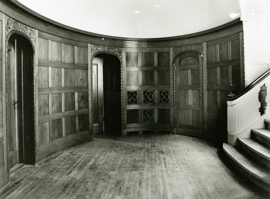 Mansion at Kildegårdsvej 71, Gentofte. Built 1916-17 by architect Christian Olrik. Police headquarters from 1949 through 2010.